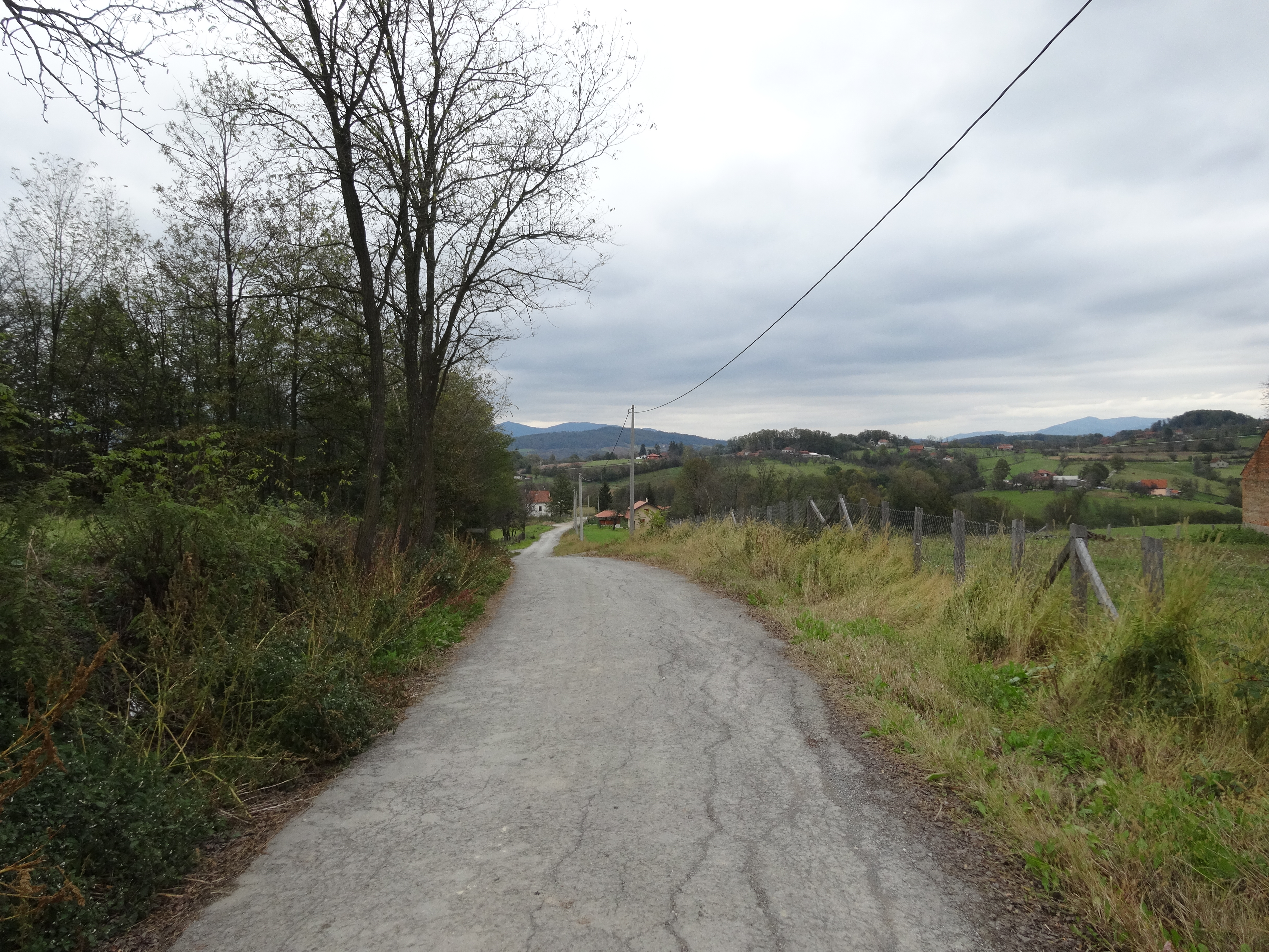 Vrnčani, View of the village